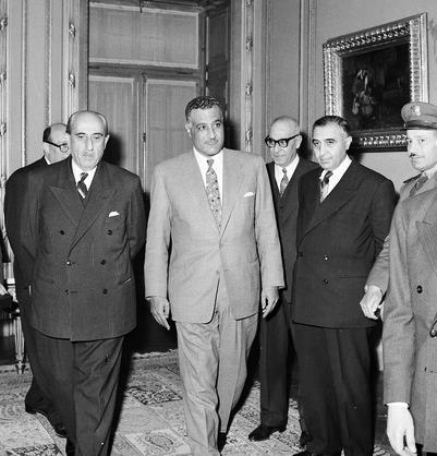 Some of the delegates of the Syrian-Egyptian unity talks that concluded with the formation of the United Arab Republic. From left to right: Shukri al-Quwatli (behind him is Sabri al-Asali), Gamal Abdel Nasser, unknown, Salah al-Din Bitar and Afif Bizri